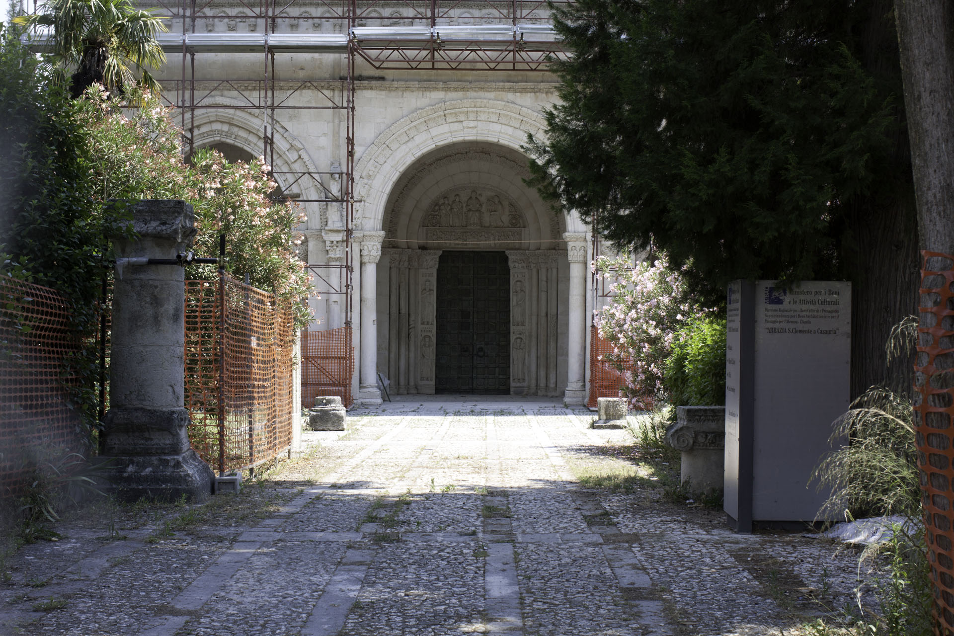 The Abbey of San Clemente a Casauria undergoing restoration work in 2010, after the earthquake of 2009.